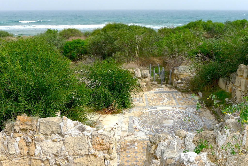 Basilica Kampanopetra, Salamis (Cyprus)